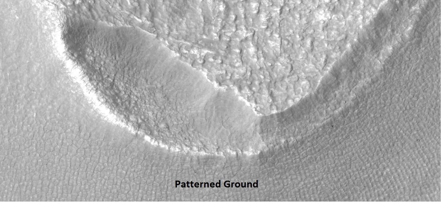 Close-up view of tongue-shaped glacier as seen by hirise, under HiWish program. Location is 36.1 S and 101.3 E.